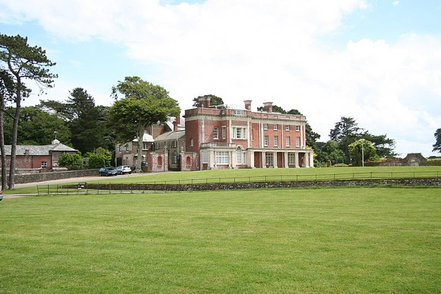 Tapeley Park The house from the parkland